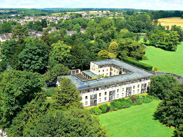 Abbey House and Abbey Gardens, Cirencester